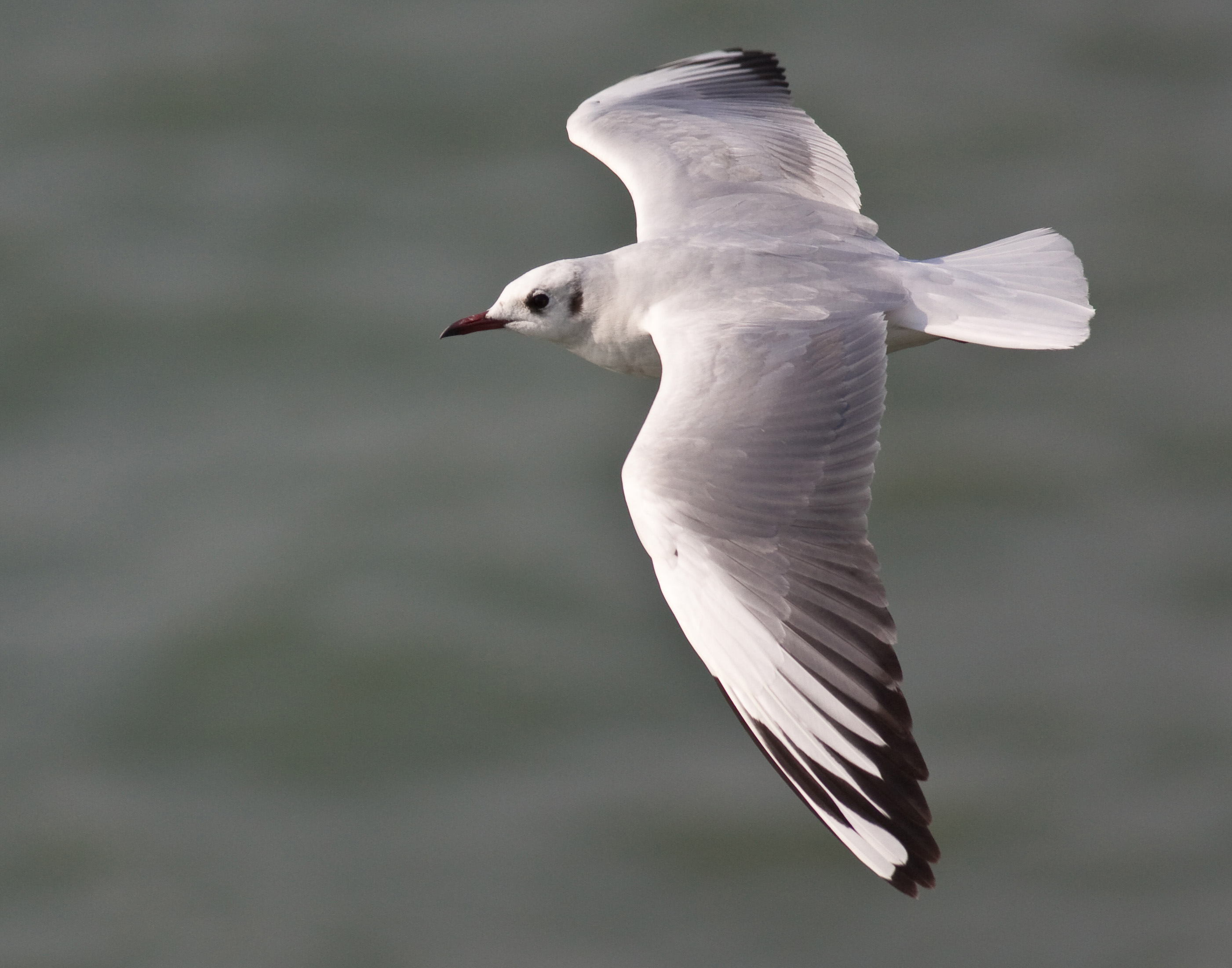 A Brown-headed Gull in flight over river Jamuna, Bangladesh in search of food.